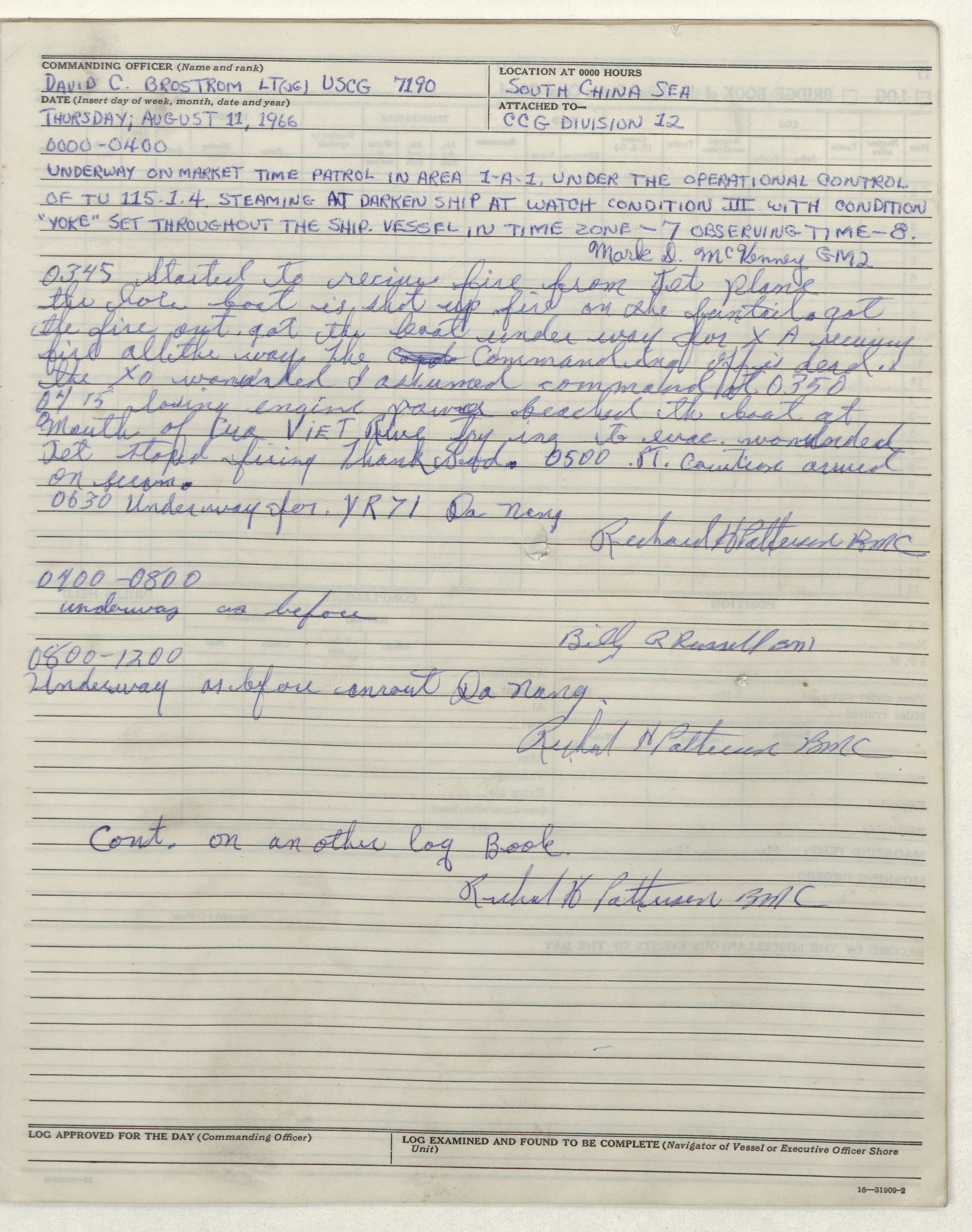 Page of the logbook from the day Point Welcome received friendly fire, with Richard Patterson's handwritten account of the incident